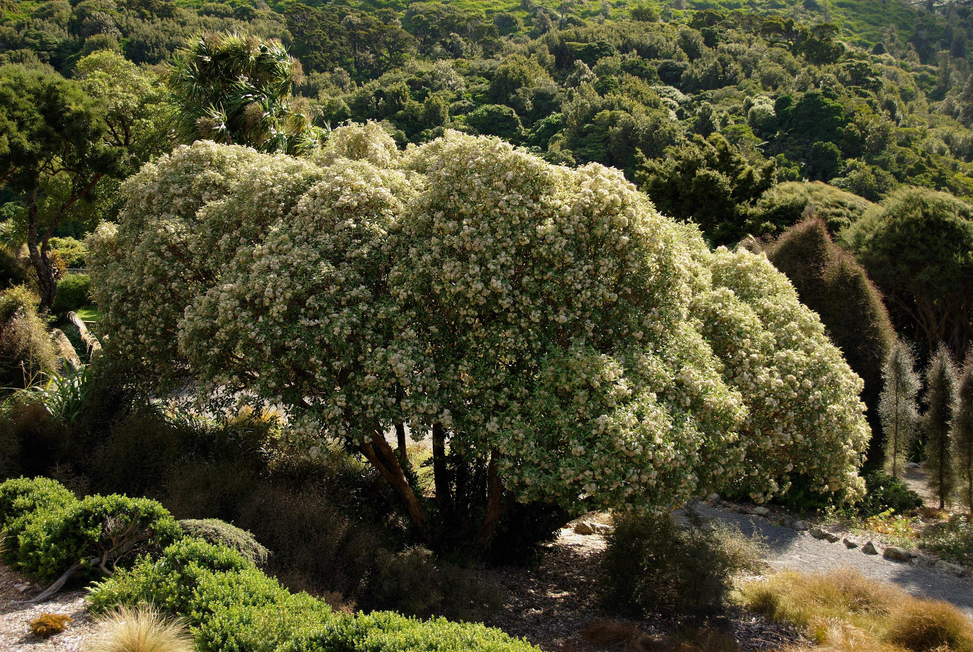 A Tree Daisy (Olearia lyalli) at Otari Native Plant Museum